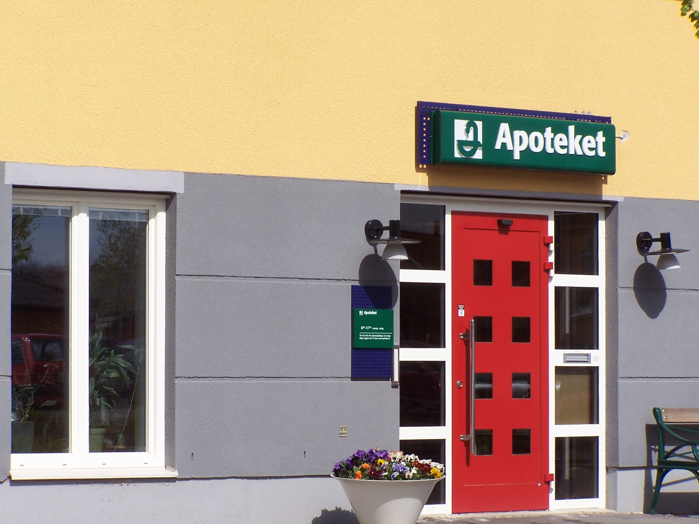 Apoteket, Ronneby Hälsocenter